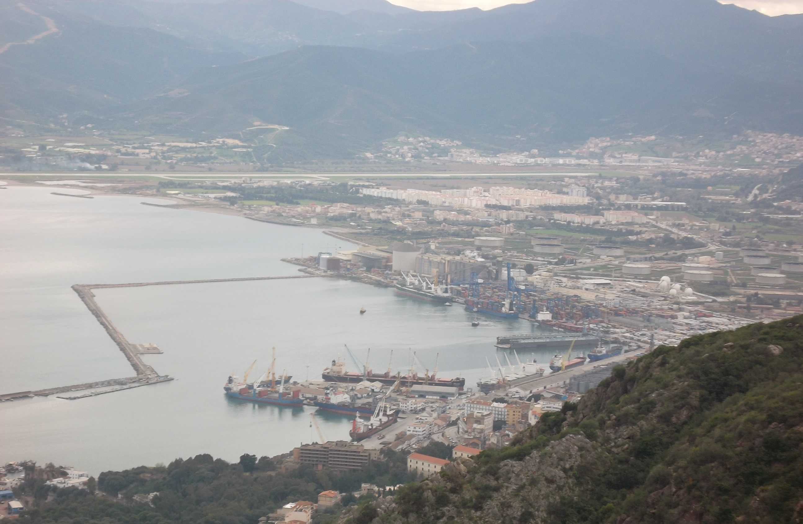 Port of Bejaia